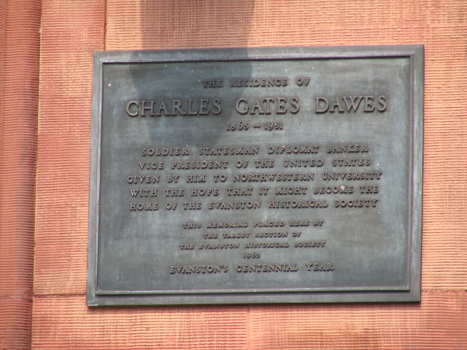 Charles Gates Dawes House, Memorial Plaque at front door, 225 Greenwood St., Evanston, IL. Built 1894 by Robert Sheppard - H. Edwards Ficken, architect.